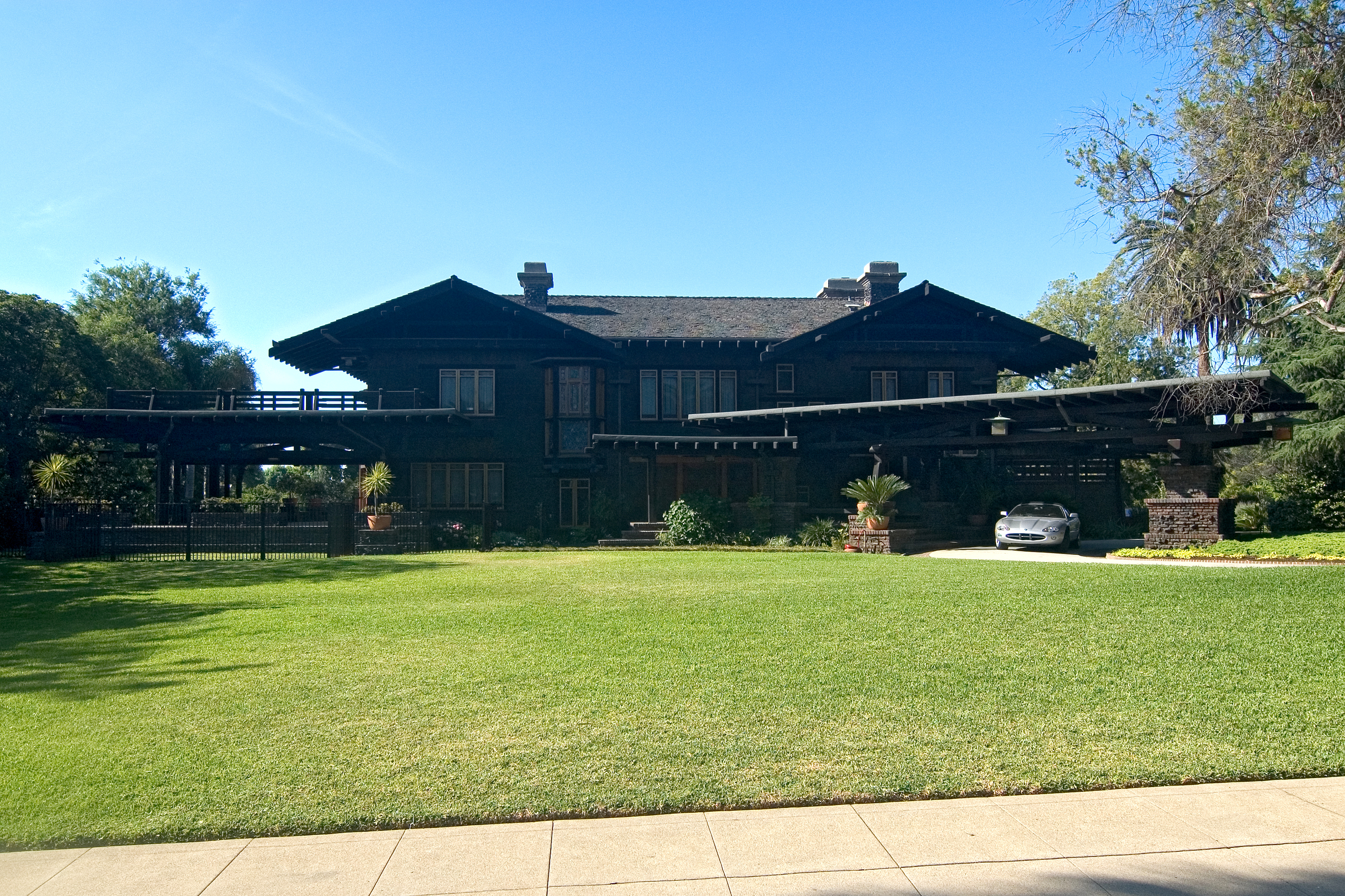 Robert R. Blacker House — at 1177 Hilcrest Ave., Pasadena, California 91106. Designed by Greene and Greene in 1907, and on the National Register of Historic Places in Pasadena.